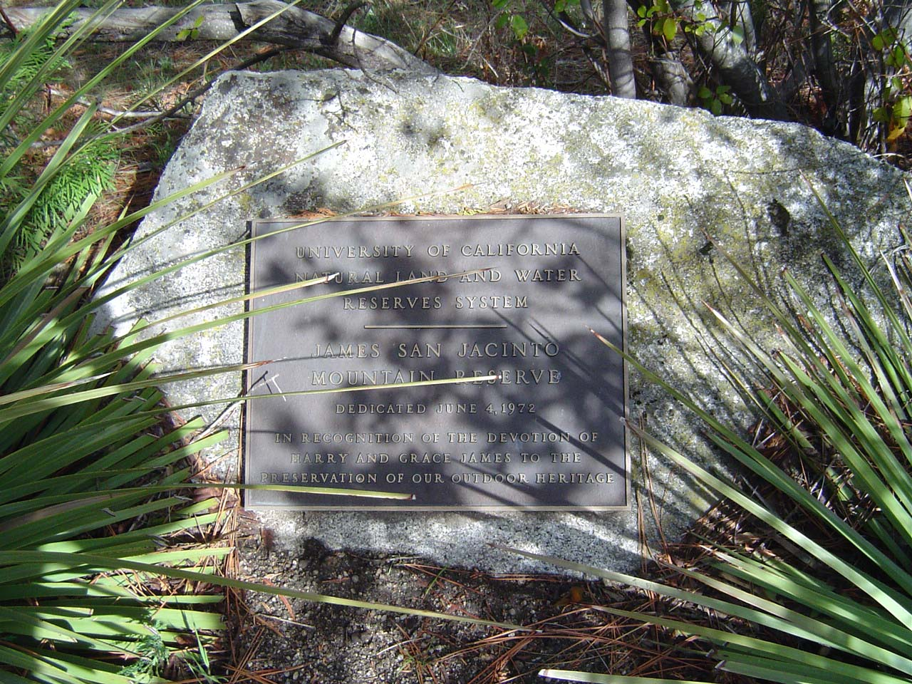 Photographed and uploaded by user:Geographer. The founders' rock in James Reserve to honor the donors Harry and Grace James.